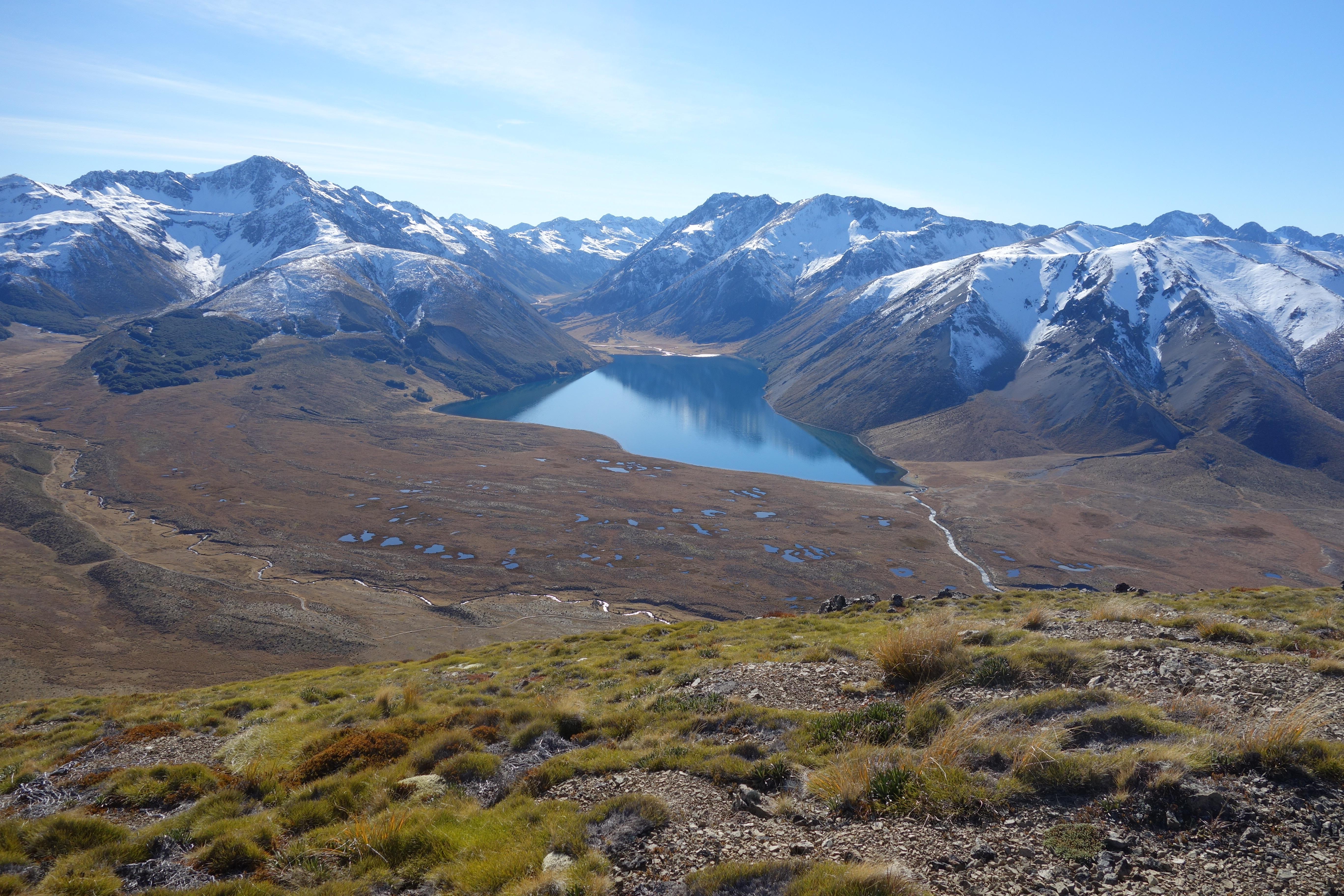 Climb up the northernmost spur of Mount Kruse, overlooking Lake Tennyson, the Rainbow Road, and the Clarence River Valley.